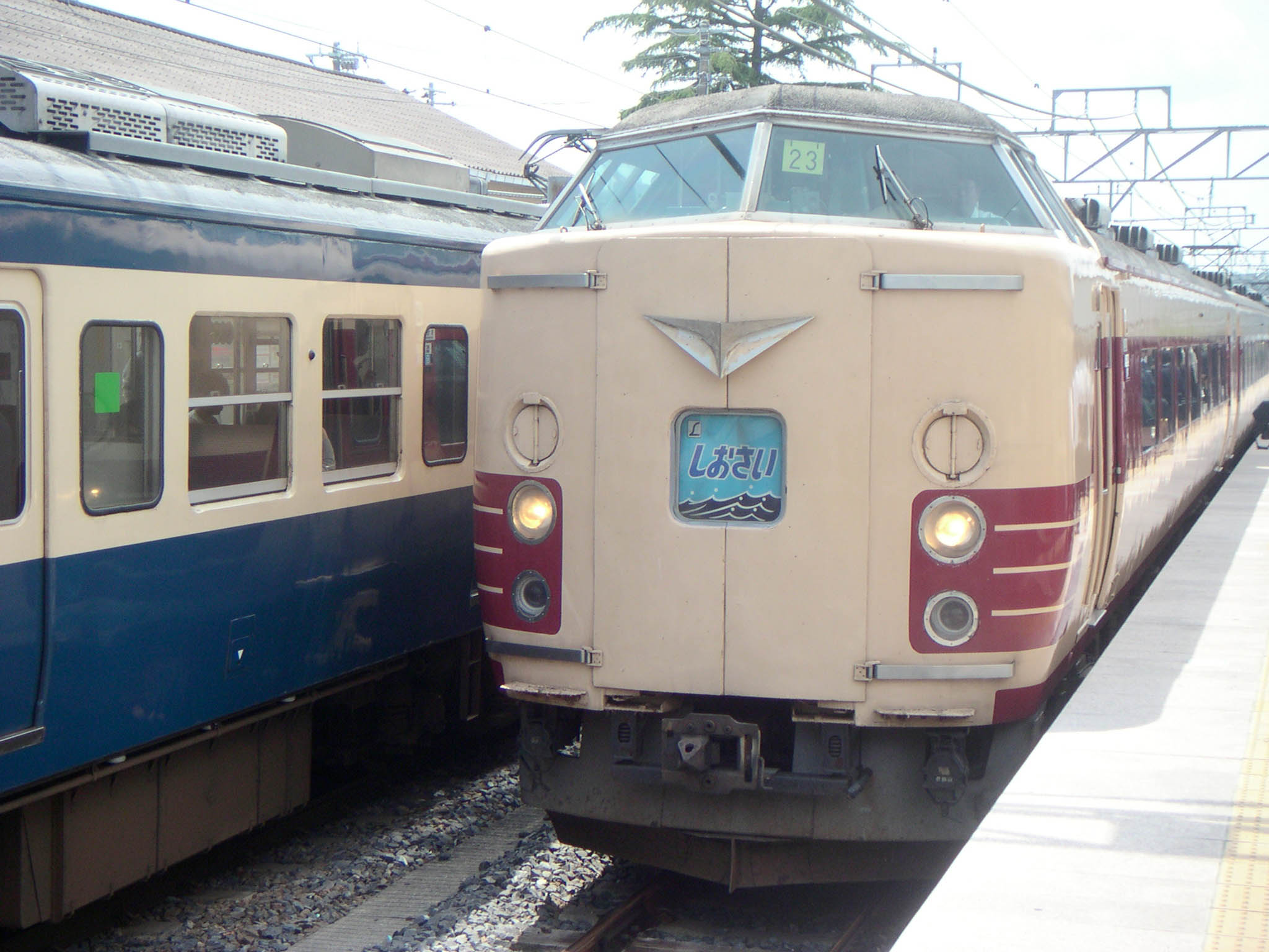 Shiosai limited express at Narutō Station in Sanmu, Chiba, Japan Source: ph by っ May 2005